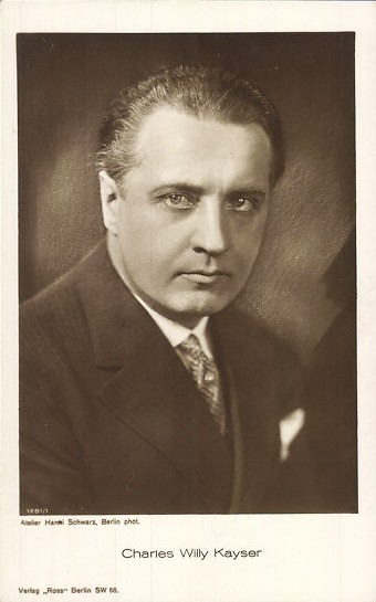 Charles Willy Kayser Portrait